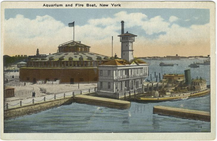 Aquarium and Fire Boat, New York.